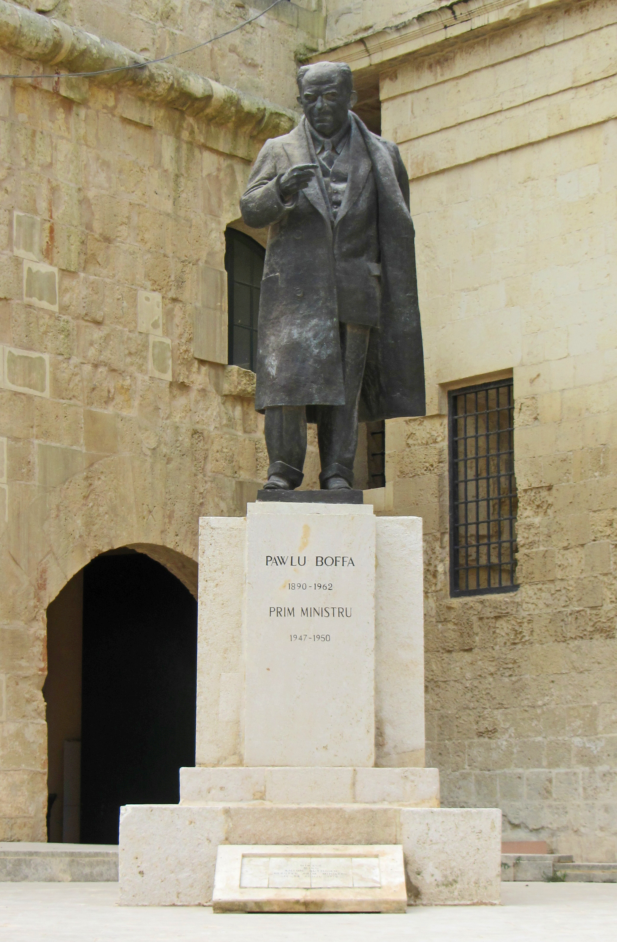 Monument to Paul Boffa, Triq Nofs-in-Nhar / Pjazza Kastilja in Valletta, Malta